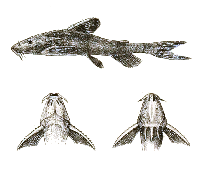 Conta conta syn. Erethistes conta The species names / identity need verification. The original plates showed the fishes facing right and have been flipped here. Erethistes elongata